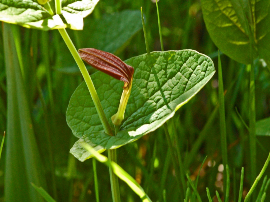 Aristolochia rotunda - Benedicta, Genova, Italy